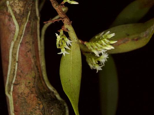 The real one - in nature. São Paulo